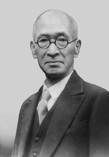 Rizaburō Toyoda was a businessperson in Japan.